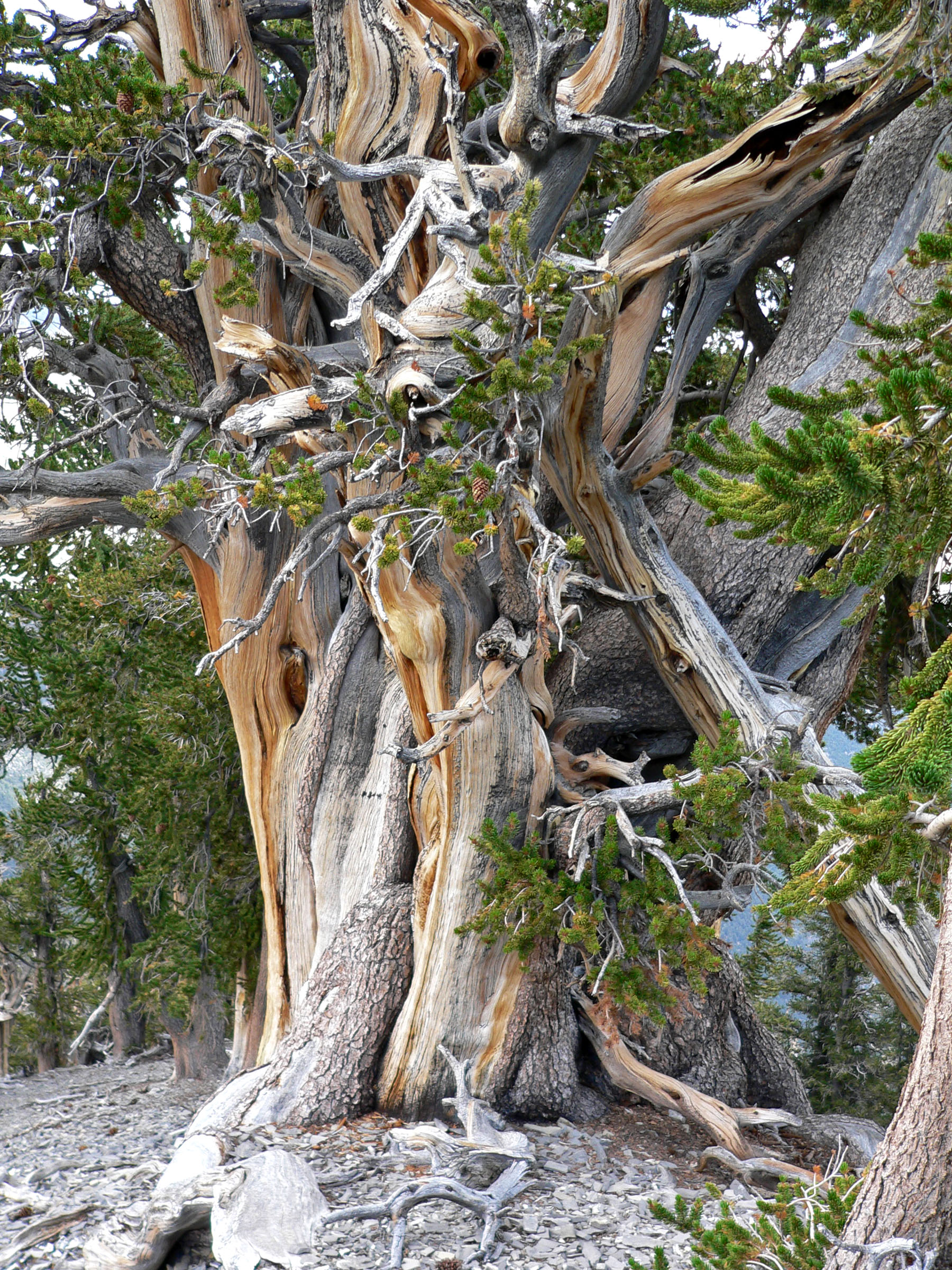 Pinus longaeva on South Loop ridge near Griffith Peak, Spring Mountains, southern Nevada (elev. about 3300 m)